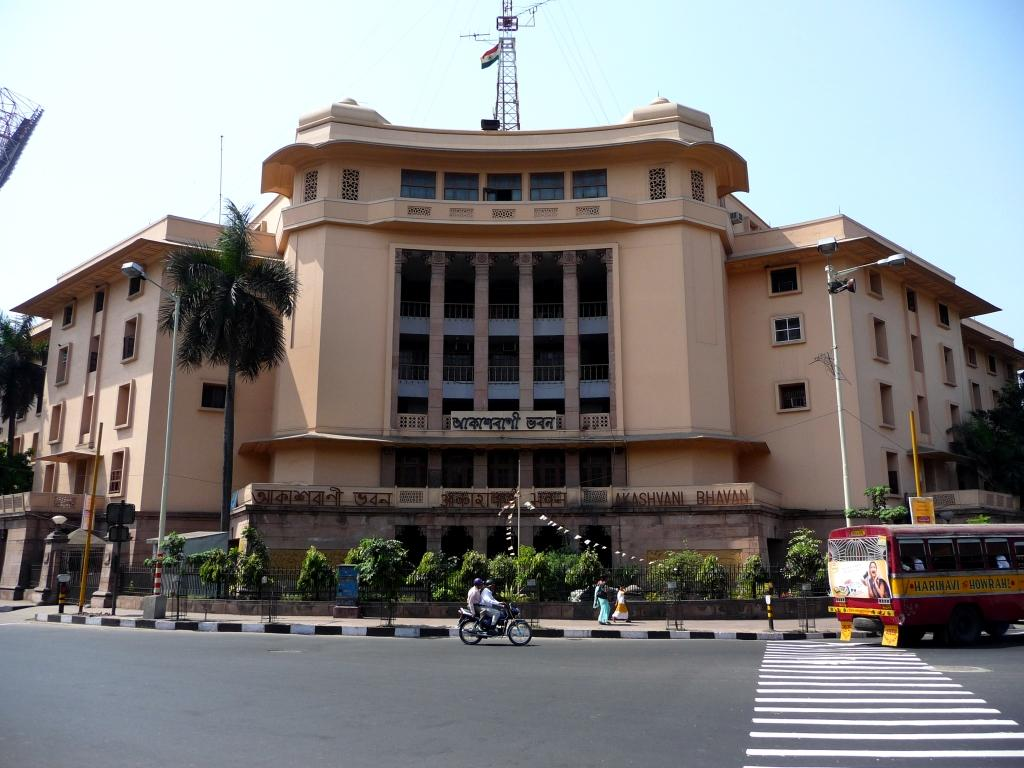 The Kolkata home of All India Radio. Completed in 1958. Designed by the firm of Ballardie, Thompson, and Matthews.